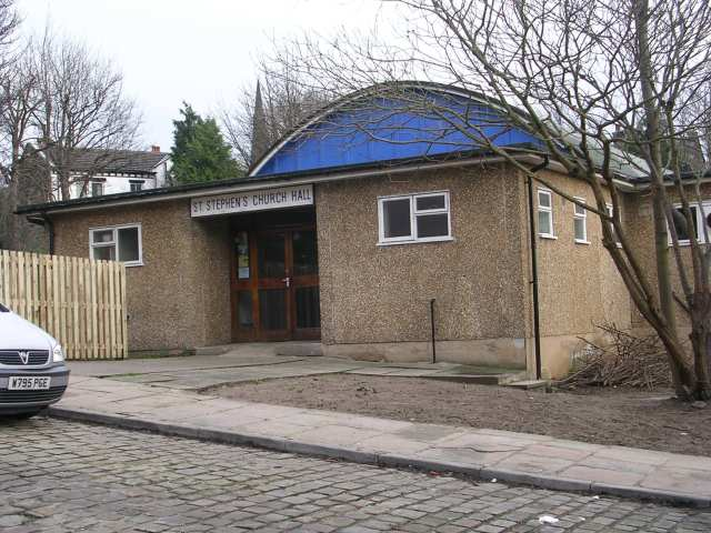 St Stephen's Church Hall - Norman Street